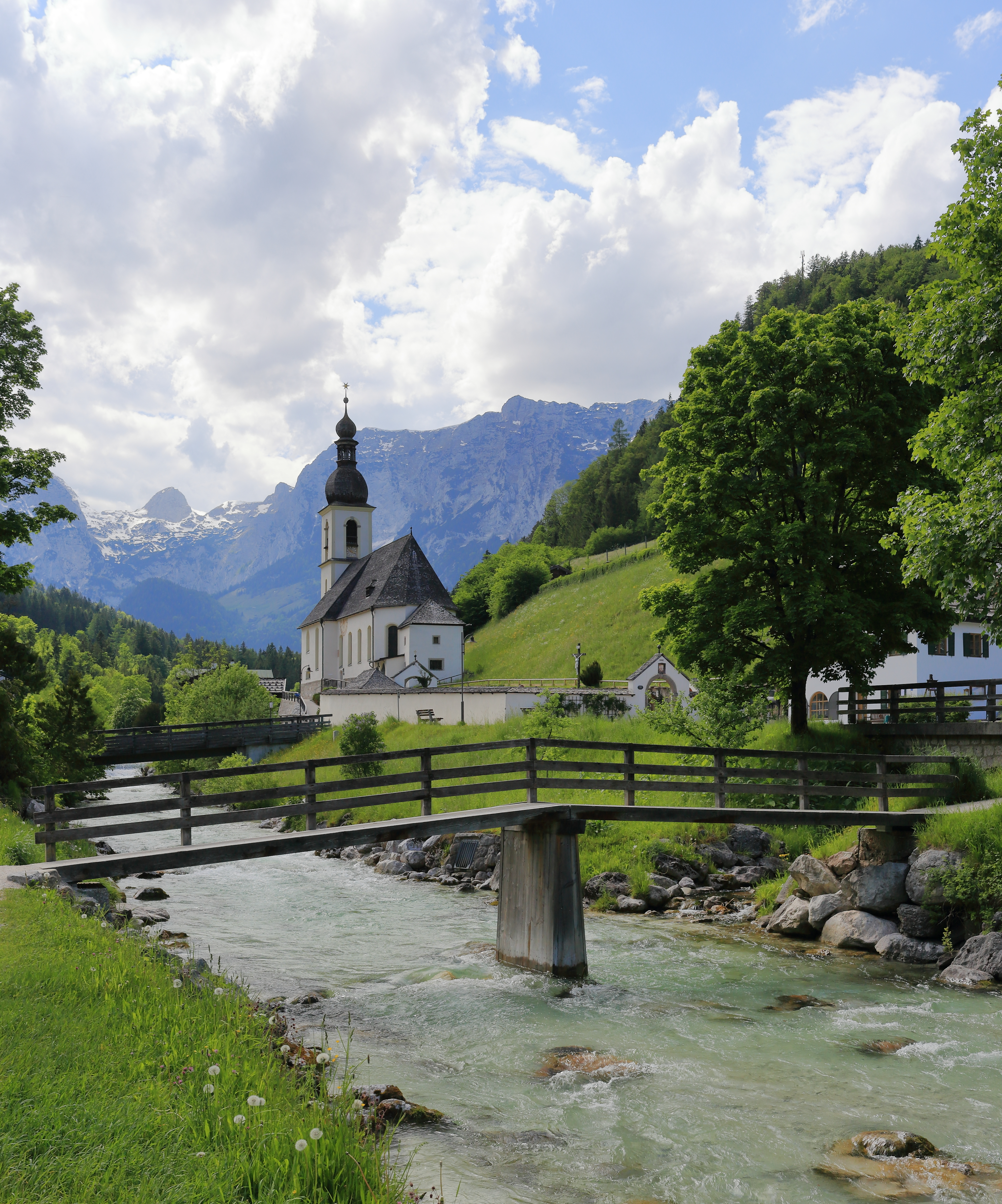 St. Fabian und Sebastian Church in Ramsau bei Berchtesgaden, Bavaria.